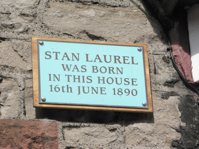 Ulverston's most famous son No.3 Argyle Street, Ulverston